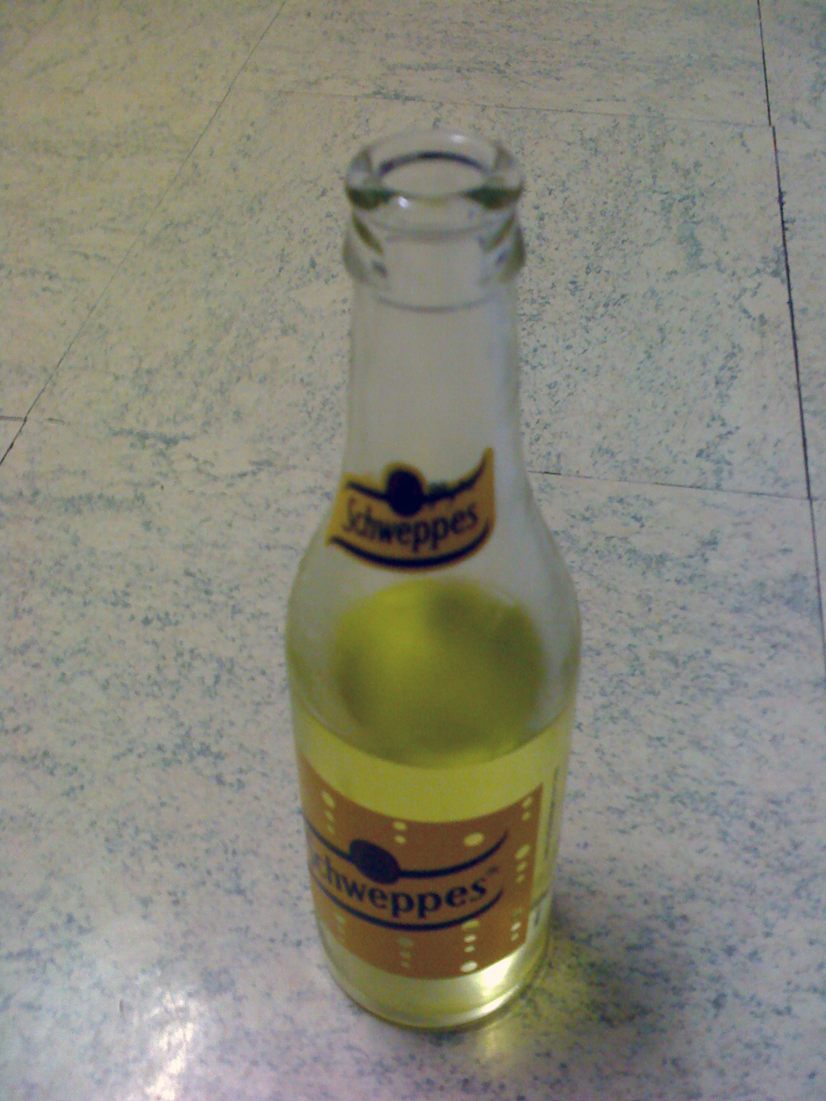 schweppes bottles